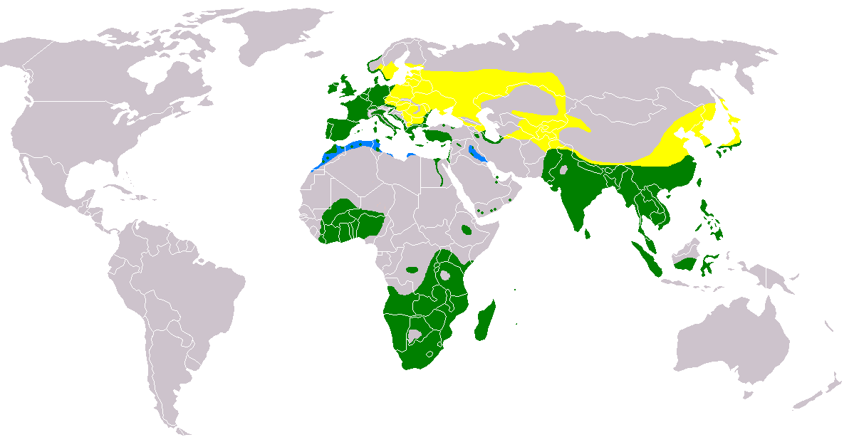 Gallinula chloropus world distribution map based on data from Handbook of the Birds of the World (del Hoyo et al.), Birds of the Western Palearctic (Snow et al.), and regional field guides; updated with split of G. galeata (Americas; formerly included in G. chloropus). Yellow: breeding summer visitor Green: breeding resident Blue: non-breeding winter visitor